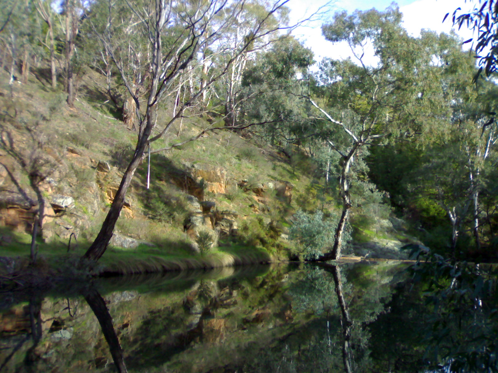 The Loddon River near the township of Vaughan, Victoria